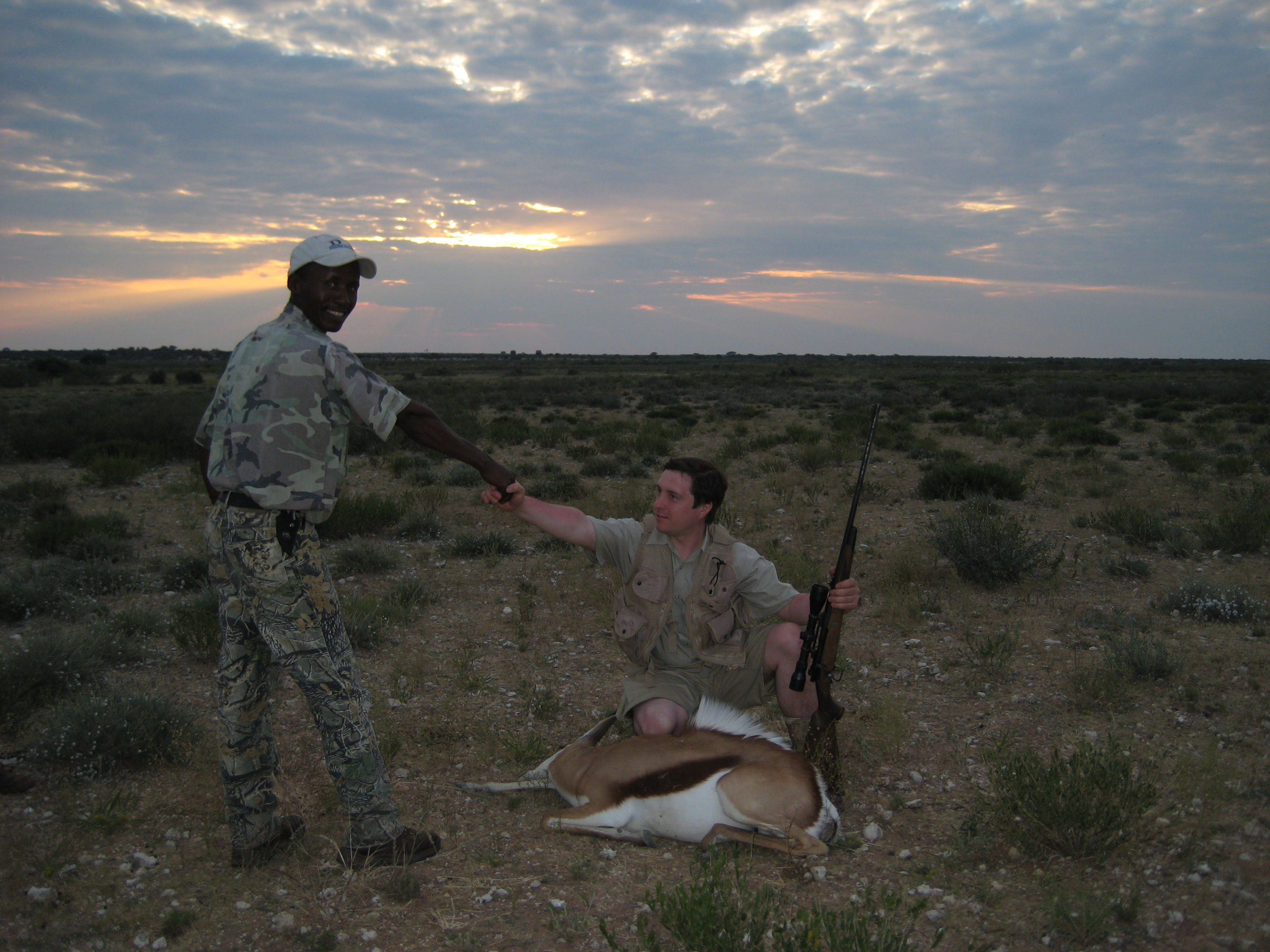 Two hunters, a White and a Native, near a killed male springbok (Namibia, near Gobabis)